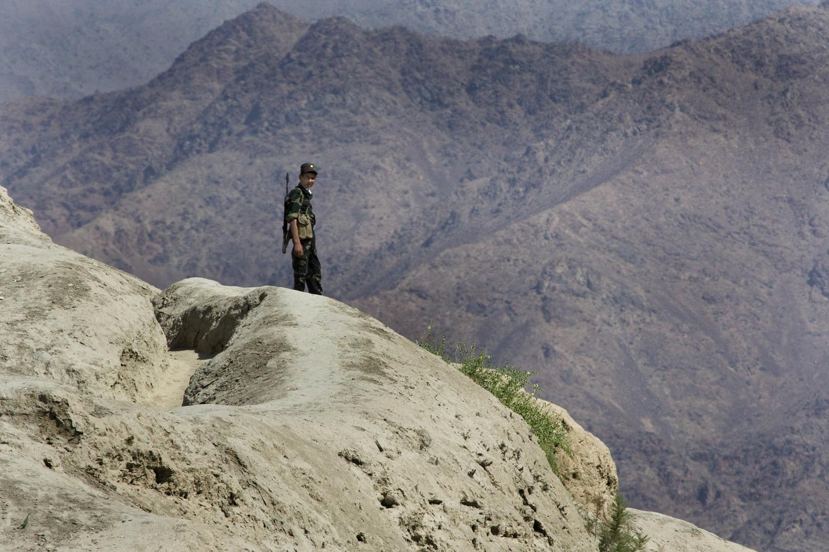 A soldier stands guard over the ancient city built by Alexander the Great at Khujand, Tajikistan.